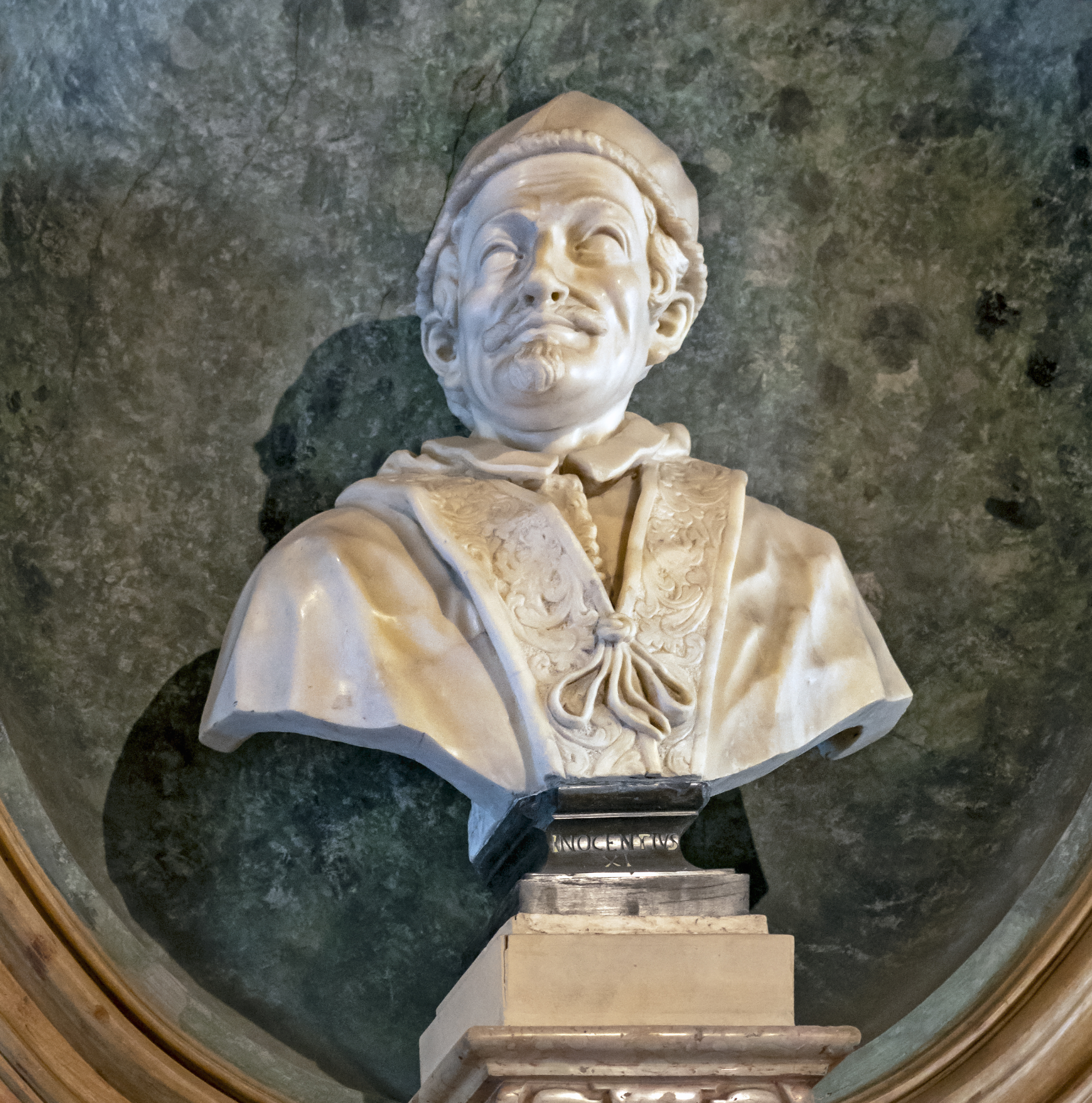 Depicted person: Innocent XI – pope